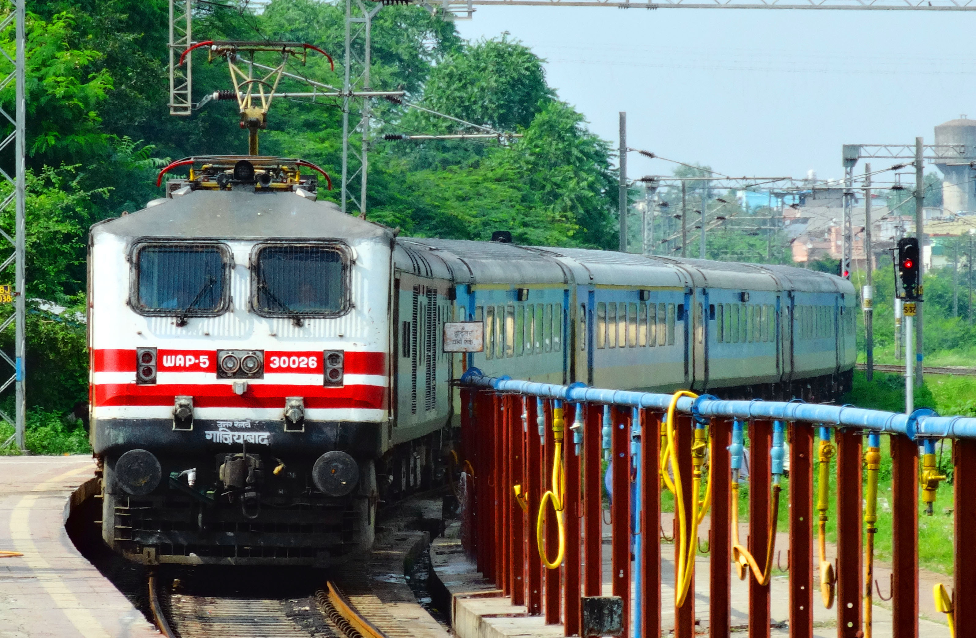 GZB's Red MONSTER WAP-5 #30026 arriving HABIBGANJ taking charge of 20 mins late running "KING OF THE KINGS" 12002 NDLS-HBJ BHOPAL SHATABDI.